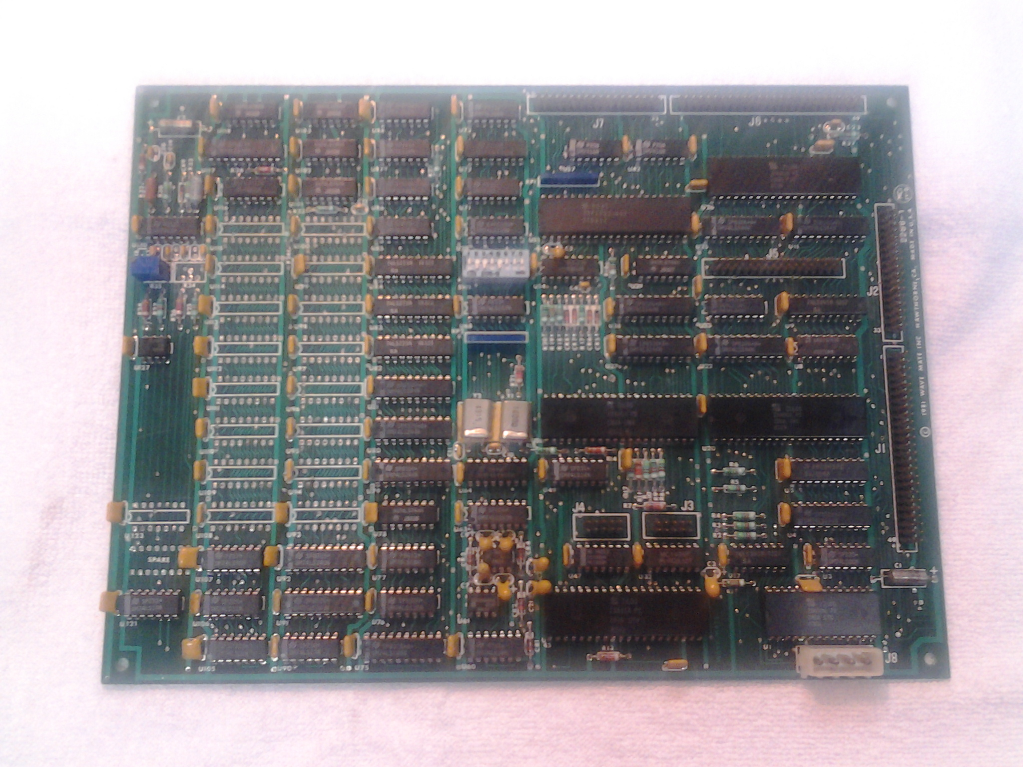 A photograph of my Wave Mate Bullet.